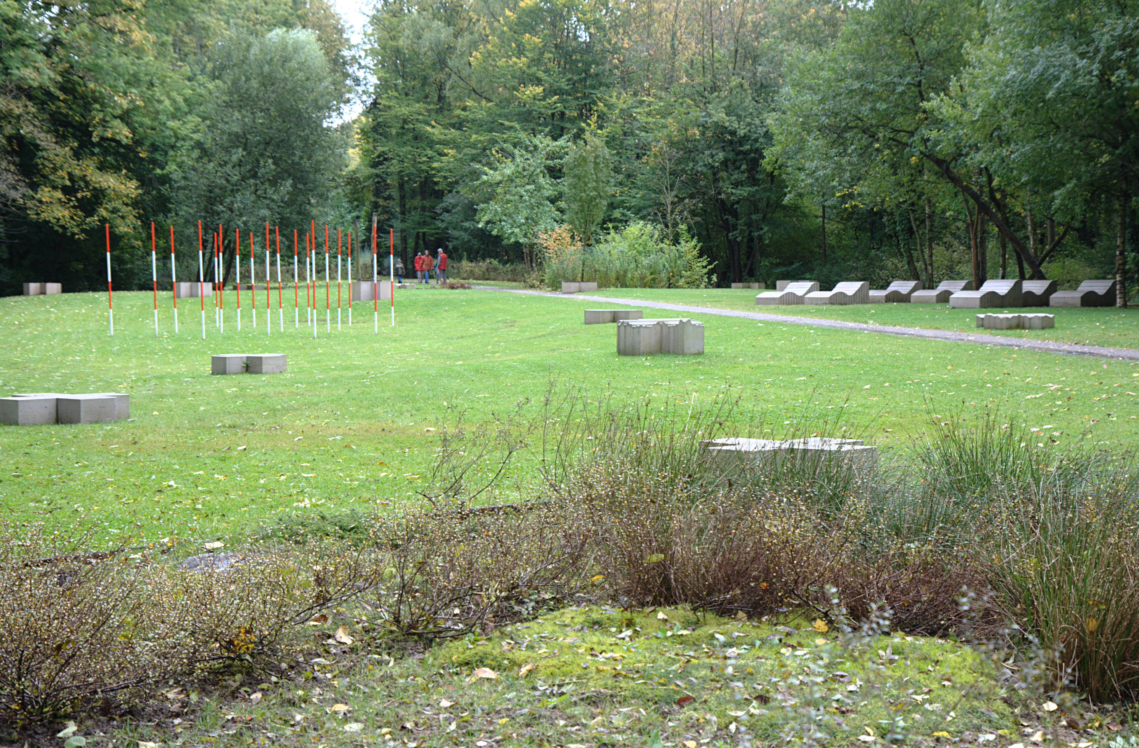 The 1997/2000 Neanderthal excavation site, subsequently transformed into an "archaeological garden"